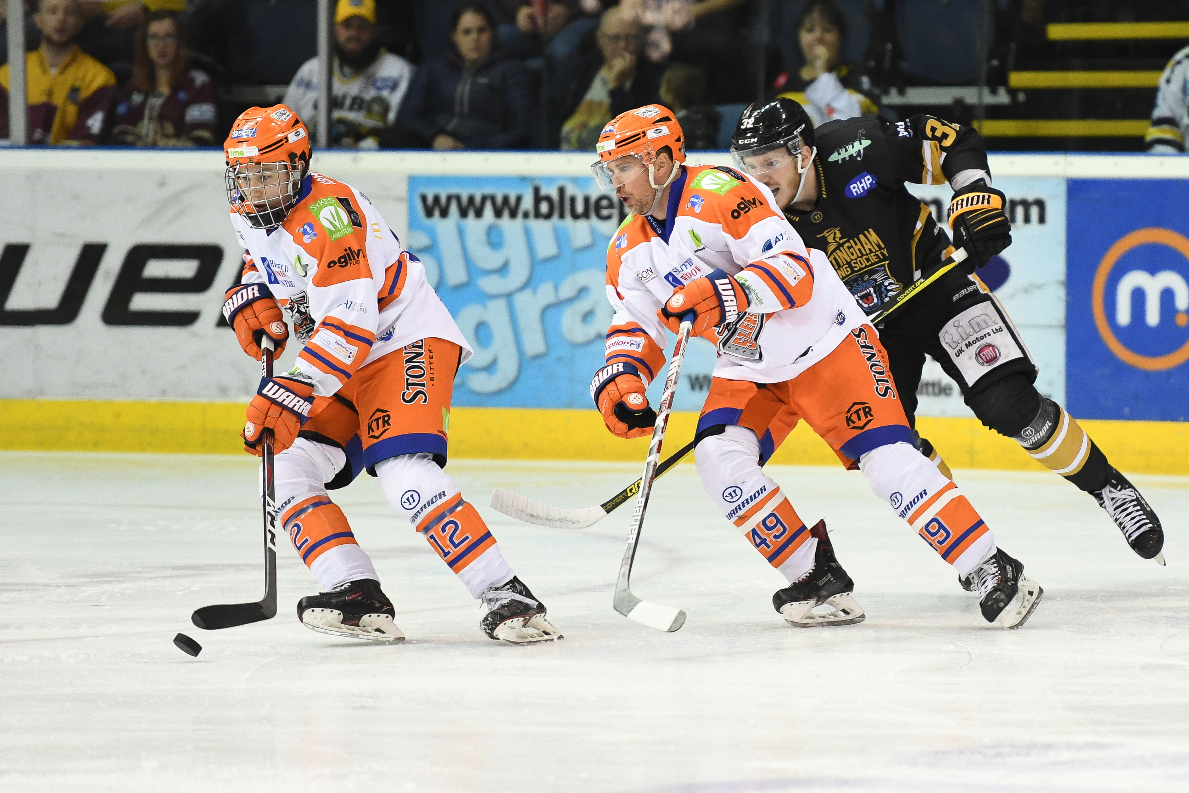 The biggest rivalry in British ice hockey between the Nottingham Panthers and the Sheffield Steelers. Taken at the game on the 13th October 2018.